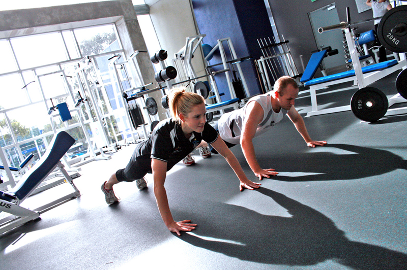 Personal Training at a Gym - Pushups